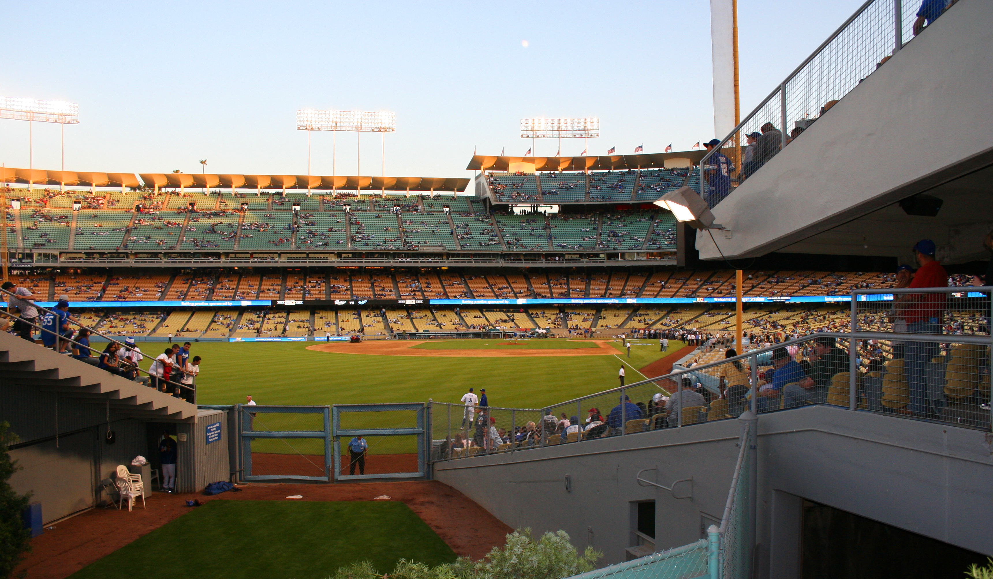 View of Dodger Stadium over the home team bullpen